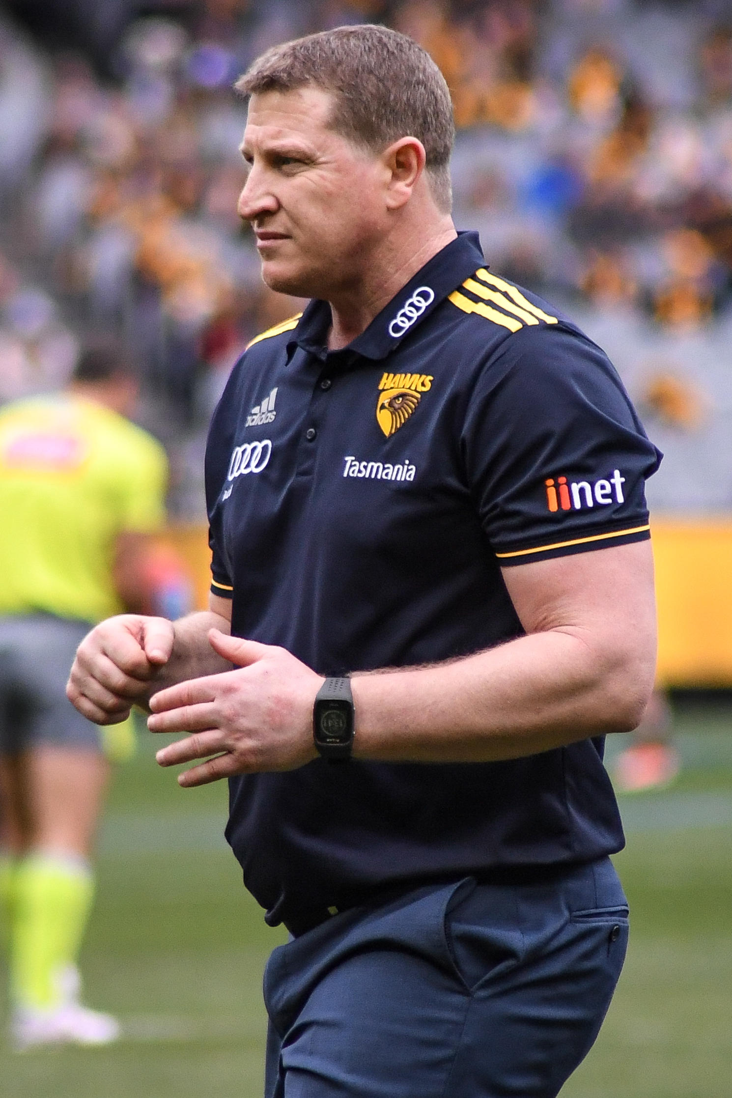 Scott Burns of Hawthorn during the 2018 AFL round 20 match between Hawthorn and Essendon at the Melbourne Cricket Ground on Saturday, 4 August 2018 in Melbourne, Victoria.